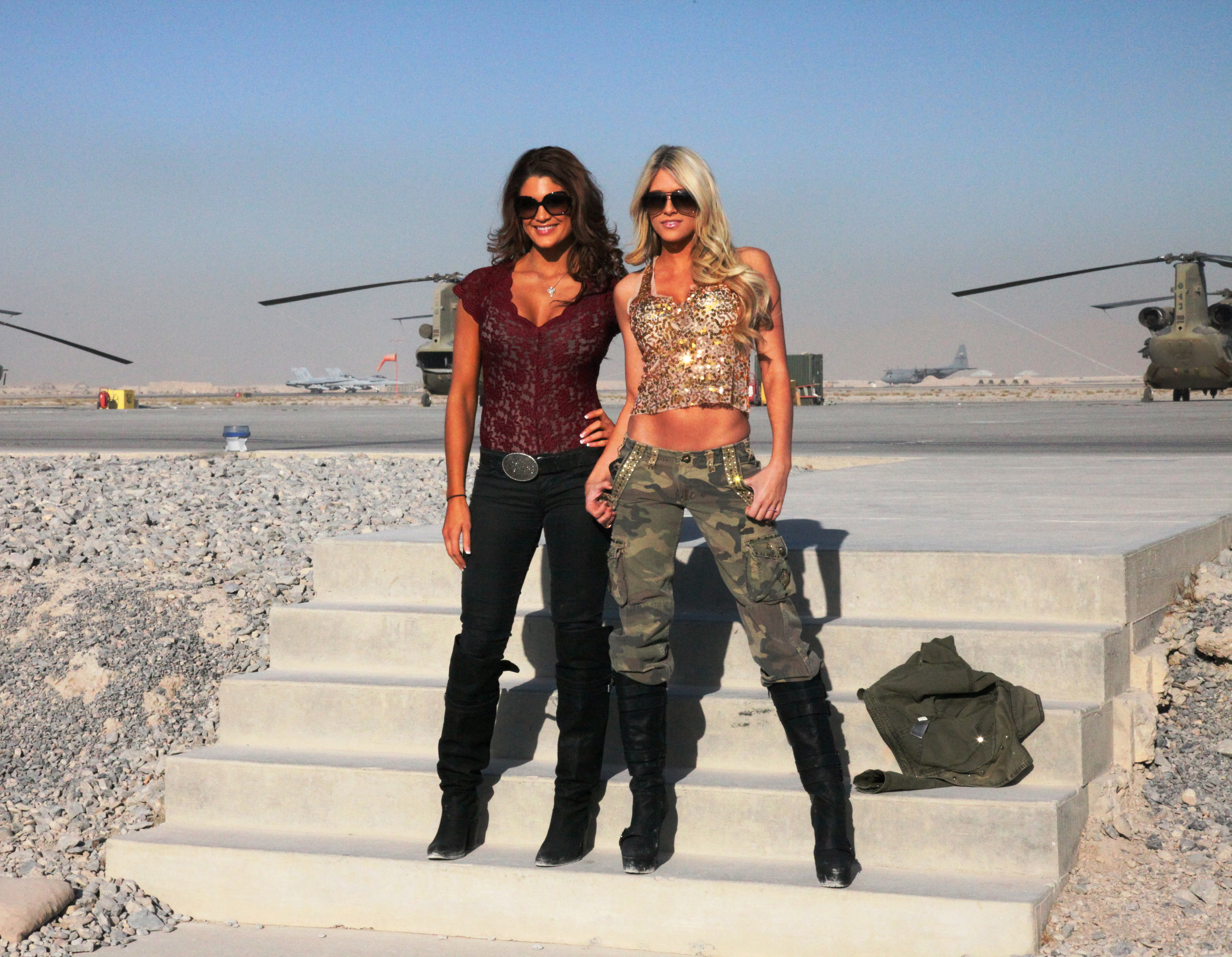 World Wrestling Entertainment (WWE) stars Eve Torres, left, and Barbara Blank, pose for a photo in front of the flight line at Kandahar Airfield in Kandahar province, Dec. 3, 2010. Torres and Blank, known to their fans as Eve and Kelly Kelly, visited U.S. Service members deployed to Kandahar for the eighth annual WWE Tribute to the Troops.